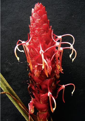 Larsenianthus arunachalensis